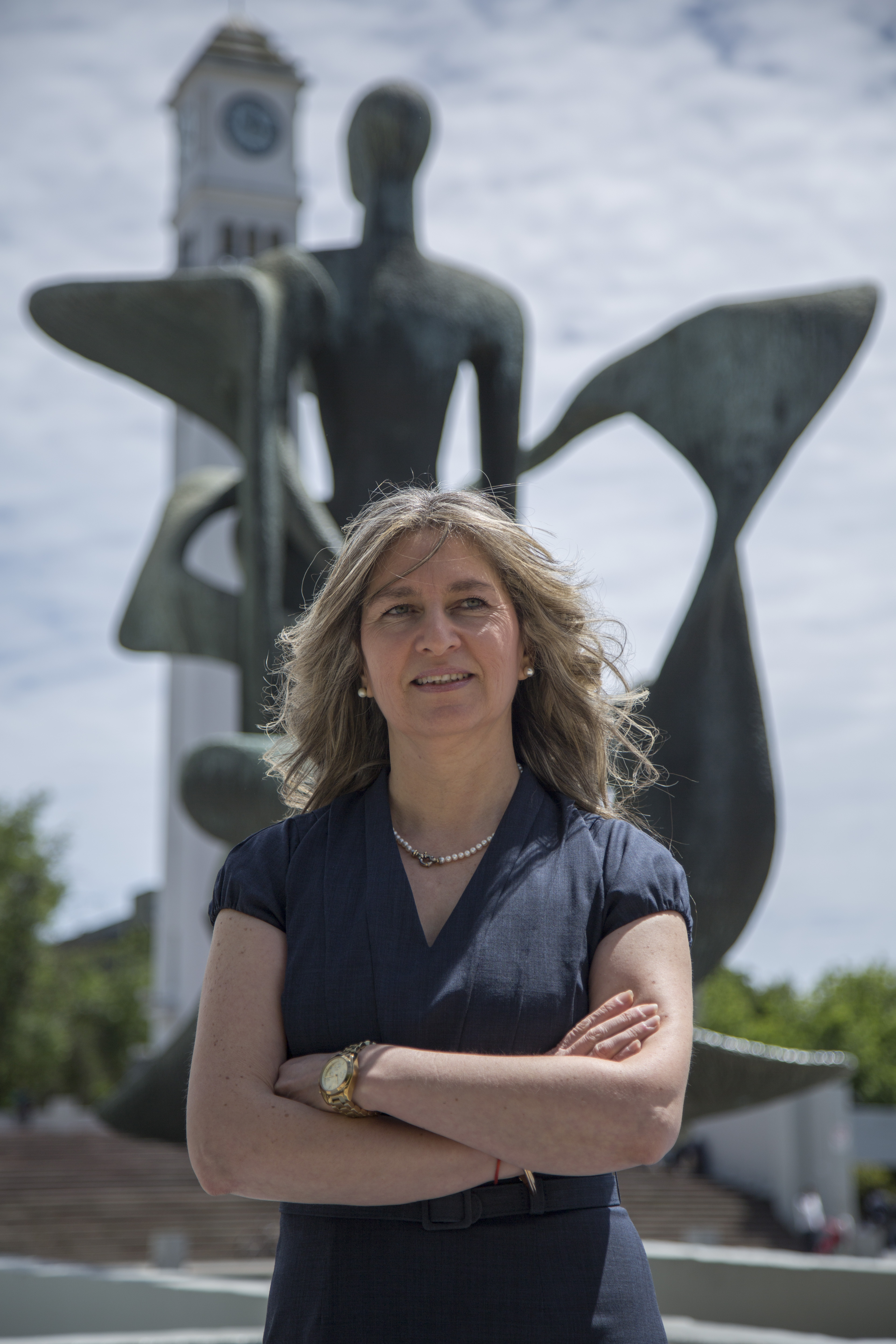 Dra. Jacqueline Sepúlveda, farmacóloga e innovadora chilena, Universidad de Concepción.